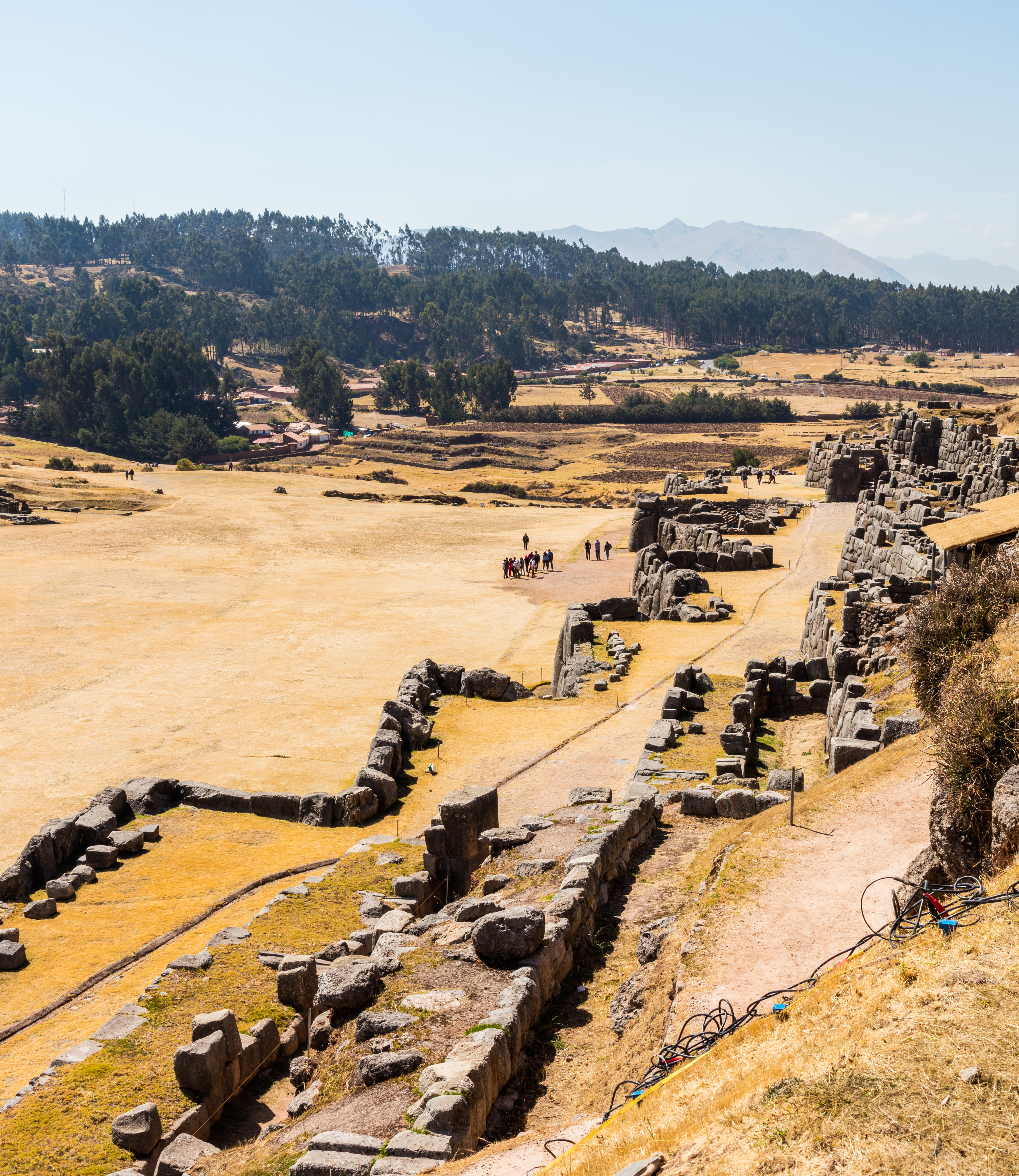 Sacsayhuamán, Cusco, Peru